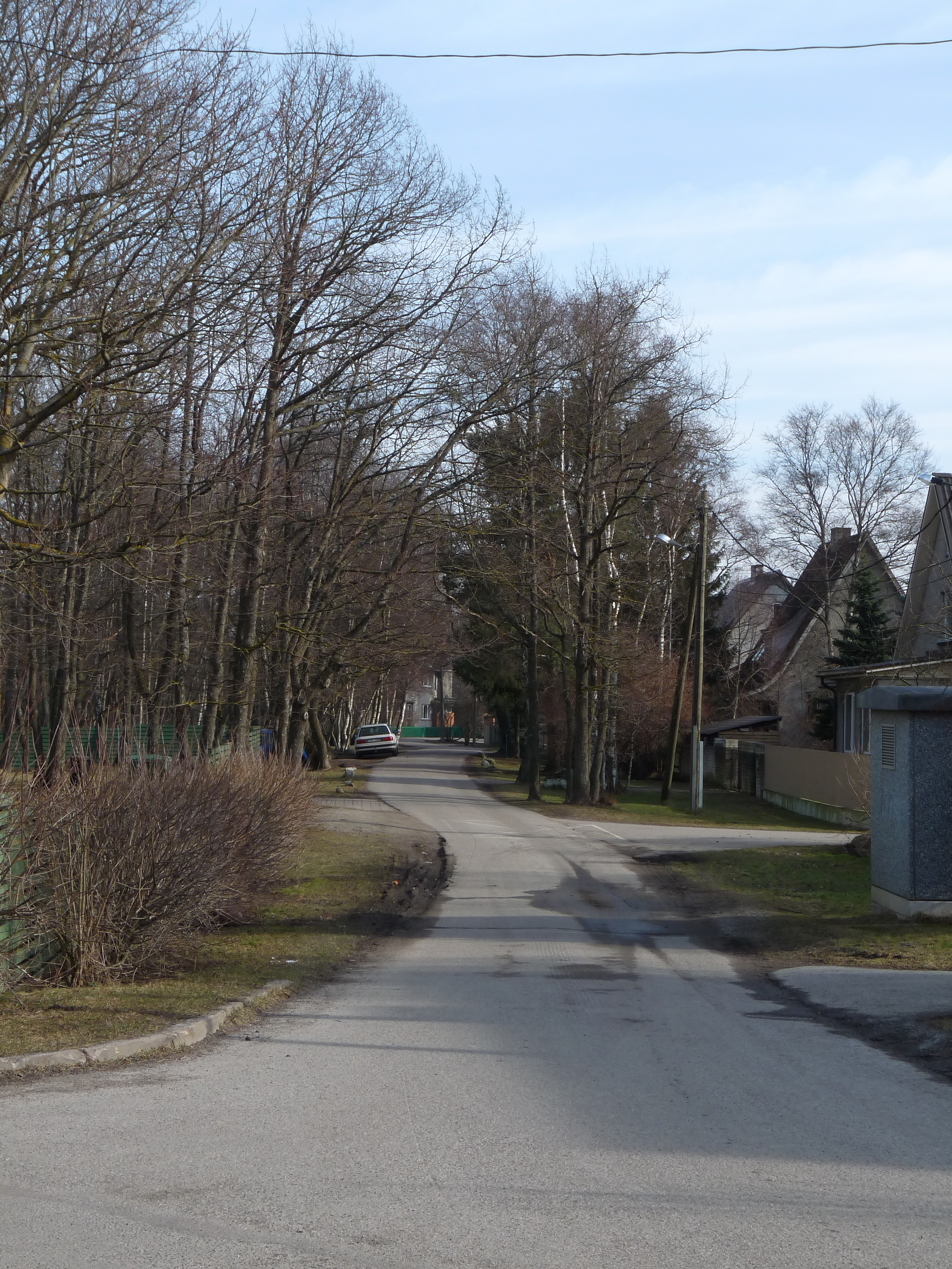 Helmiku street in Tallinn, Estonia